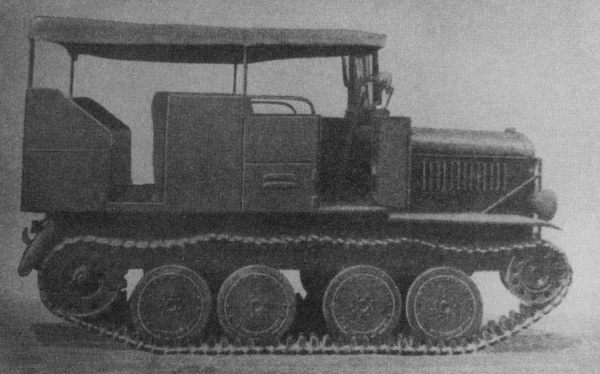 Artillery tractor Praga T-3.